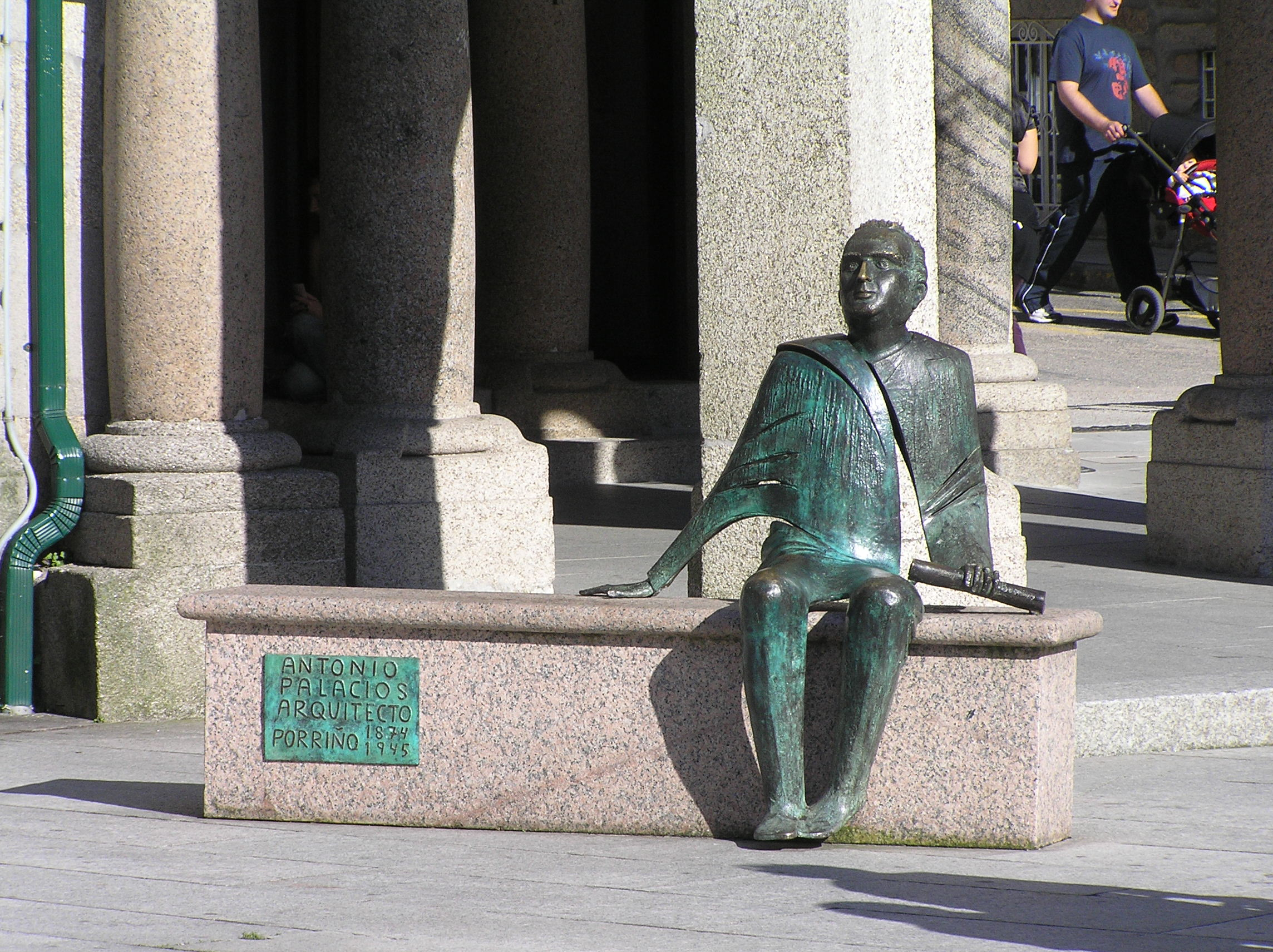 Antonio Palacios (1872-1945) - spanish architect born in O Porriño